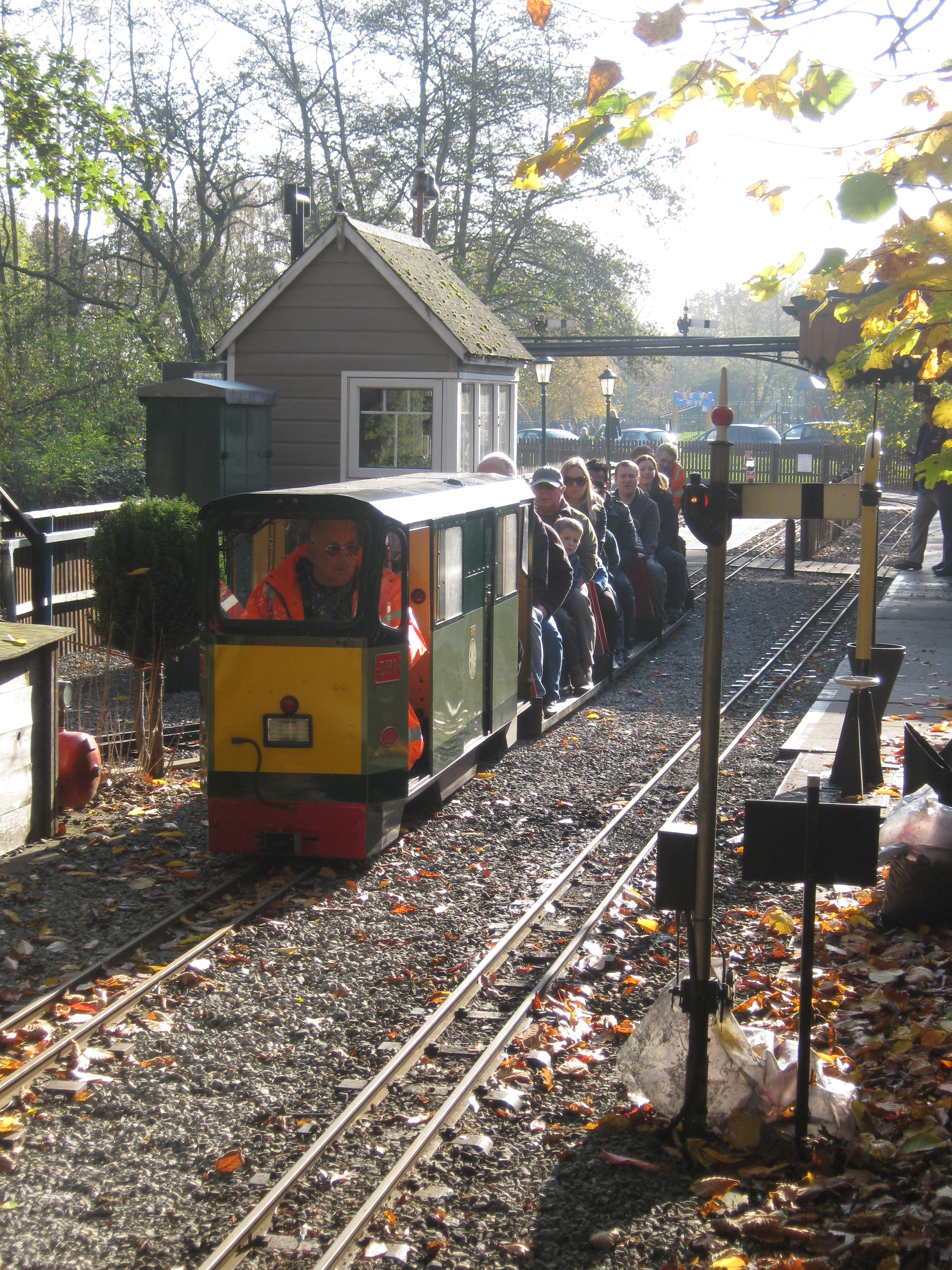 The train departing from Diesel engine pulls passenger train out from station near Kingsbury Water Park Visitor Centre. Photo taken near to Marston, Warwickshire, Great Britain